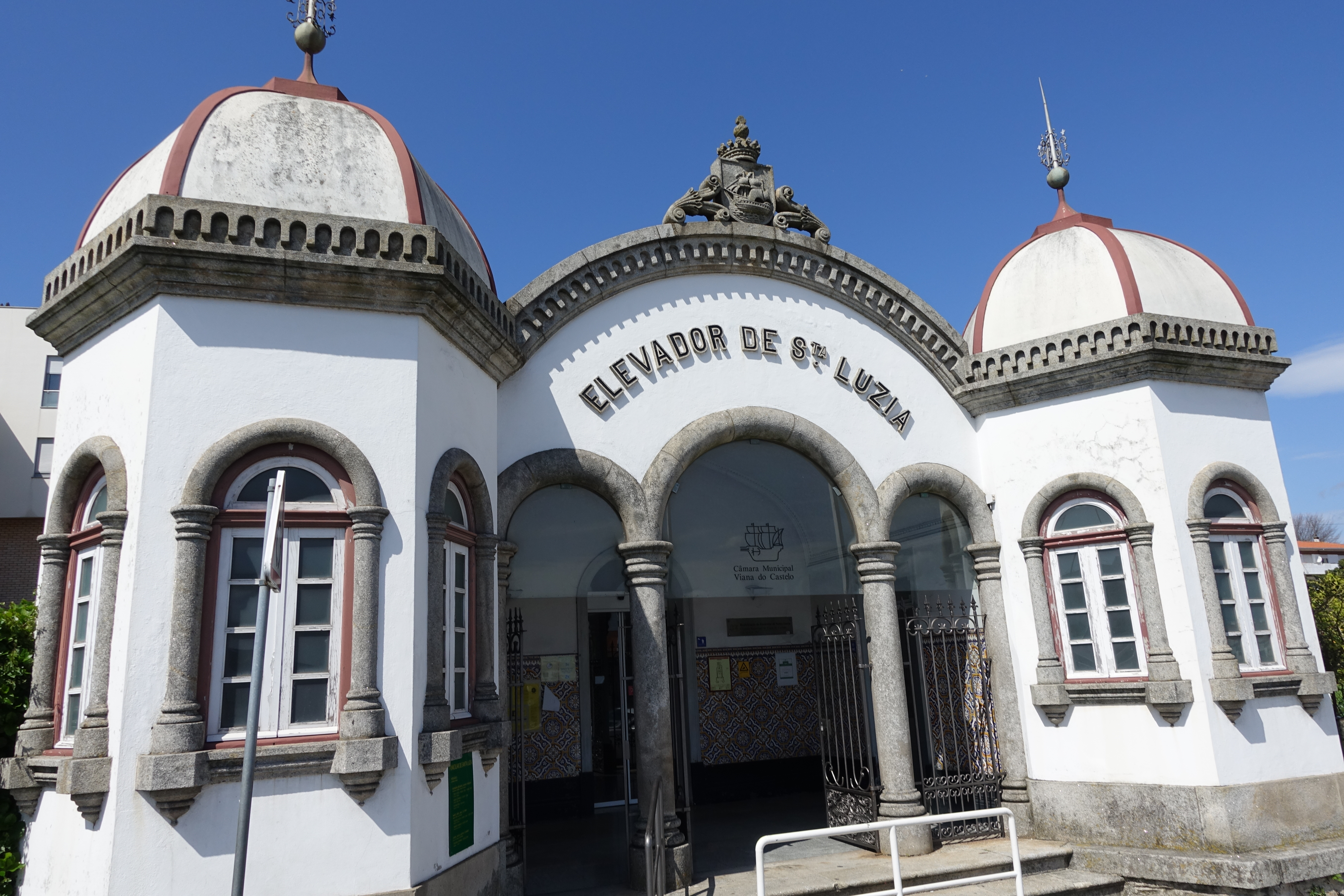 Santa Luzia Funicular in Viana do Castelo Portugal